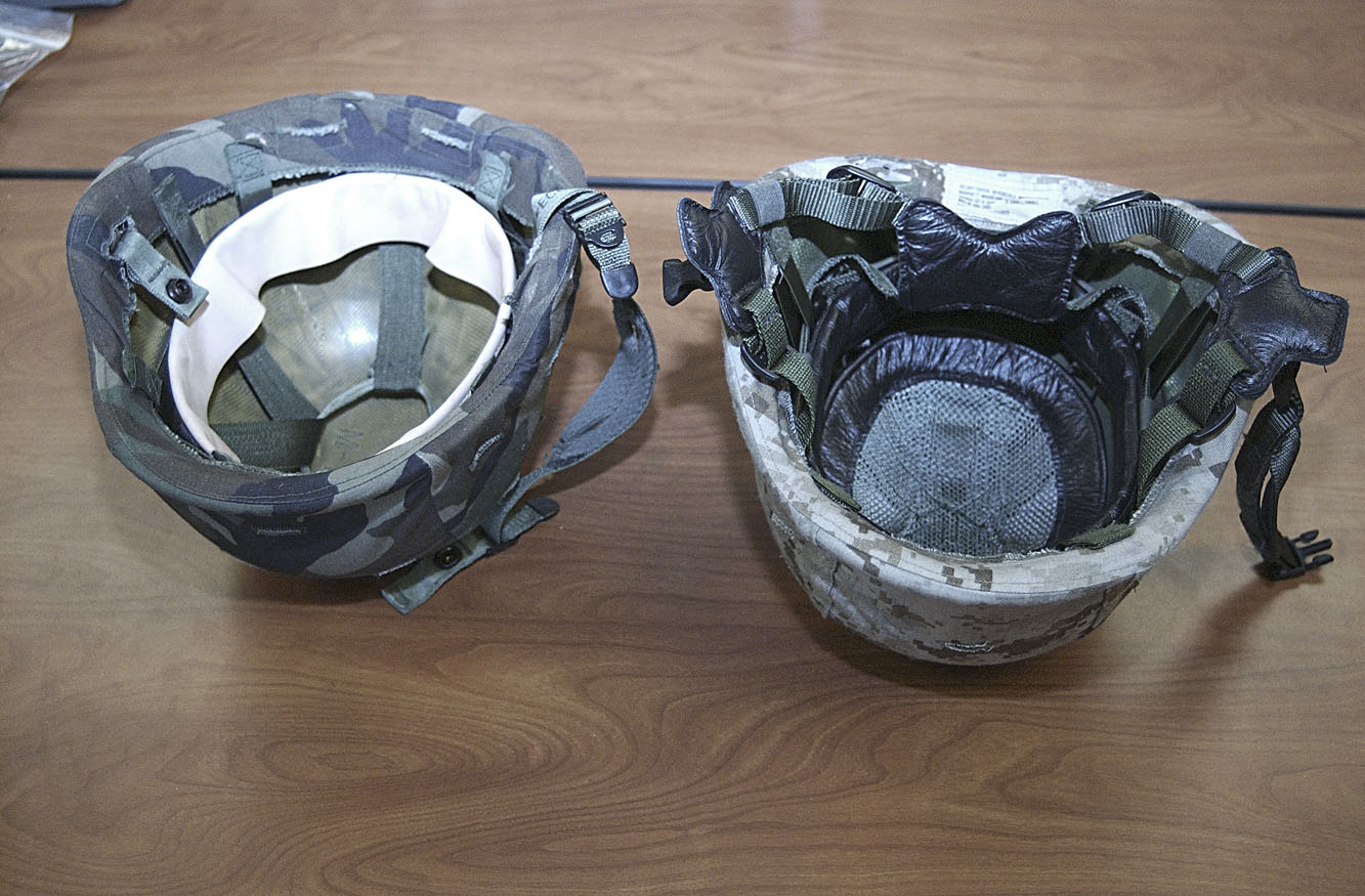 The old Personnel Armor System Ground Troop helmet (left) distributed in the 1980s was heavy and didn't fit as well as the new LWH helmet (right). The LWH is one-half pound lighter than its predecessor, and its cover is reversible, transferable from woodland to desert in a matter of minutes.